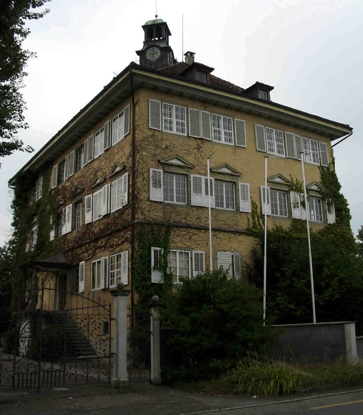 Horn TG, Switzerland